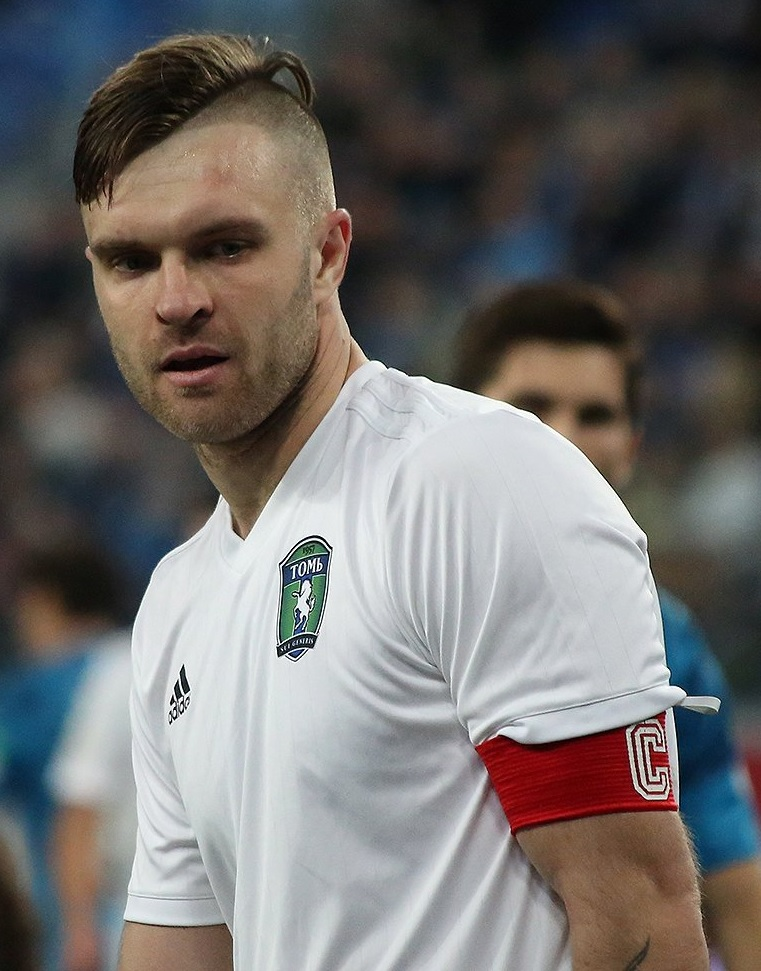 Aleksei Shumskikh with FC Tom Tomsk in a Russian Cup game against FC Zenit Saint Petersburg.